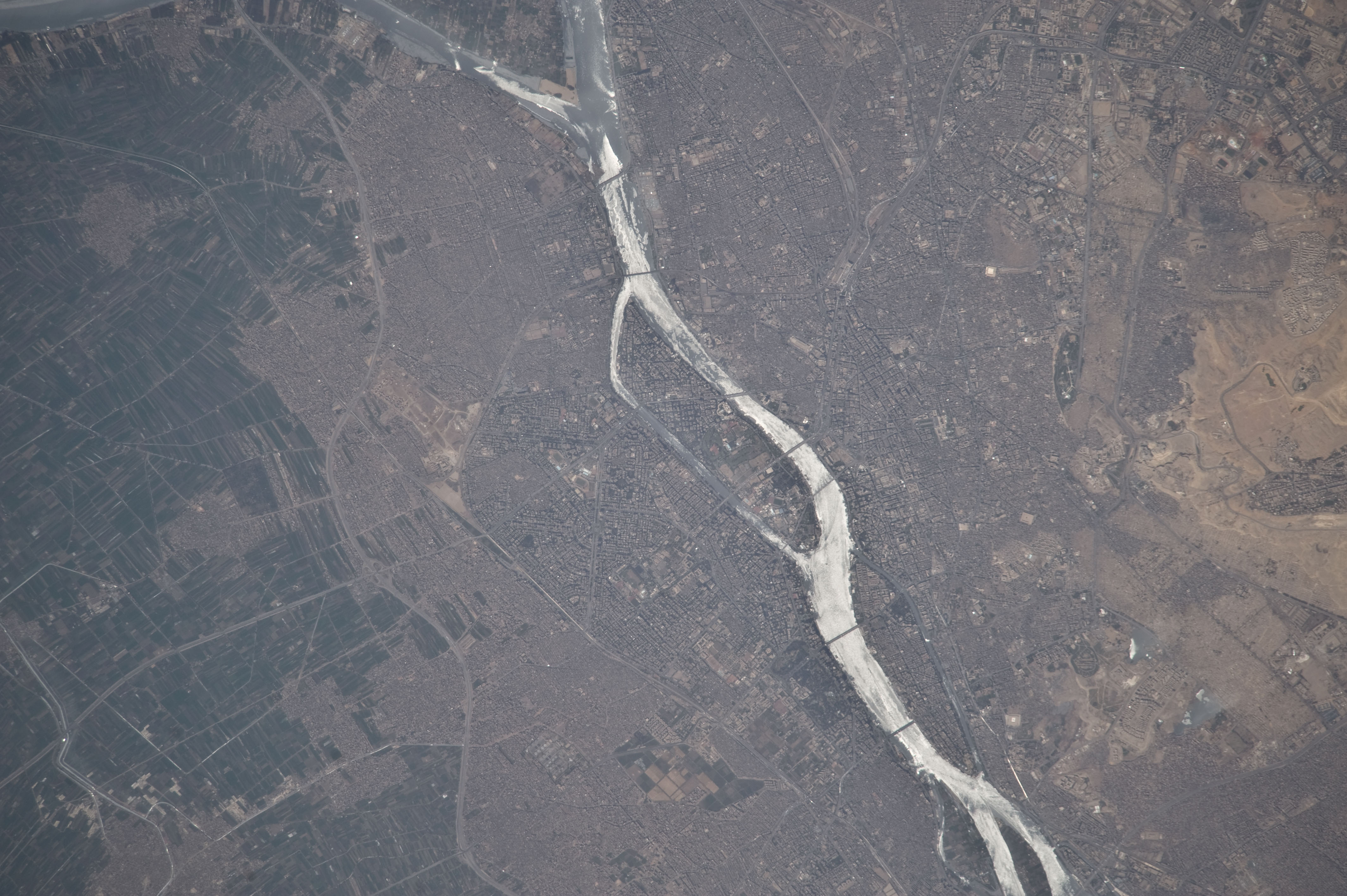 Astronaut Photo of Cairo, Egypt taken from the International Space Station (ISS) during Expedition 23 on May 5, 2010.